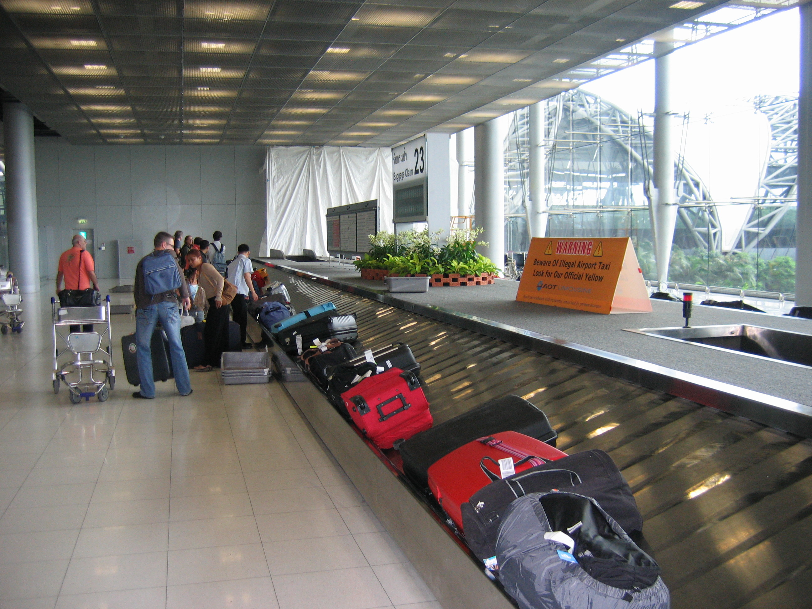 Baggage belt at Suvarnabhumi Airport in Bangkok, Thailand. With a warning sign to warn you about illegal airport taxies